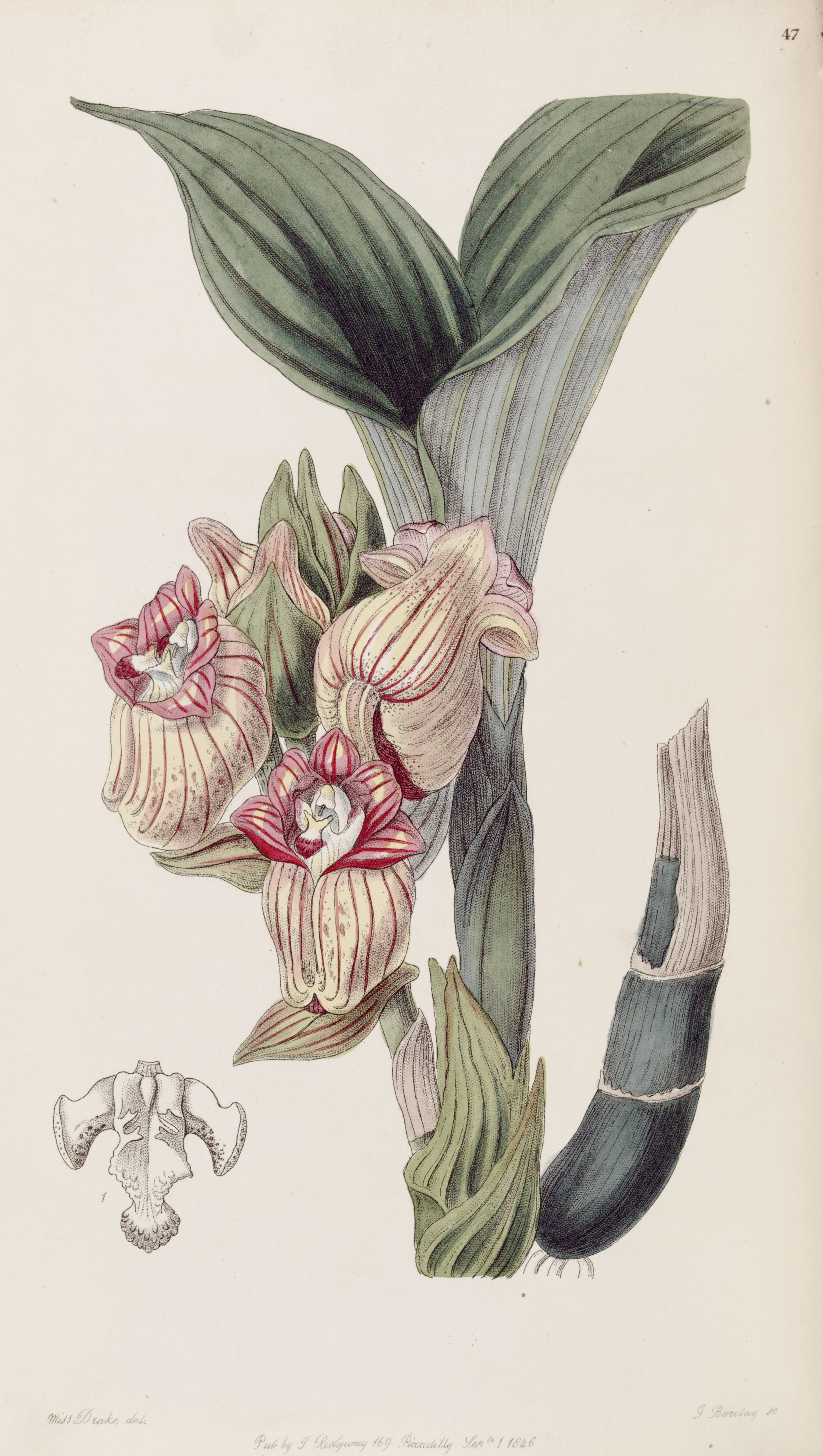 Acanthephippium javanicum (spelled Acanthophippium javanicum)